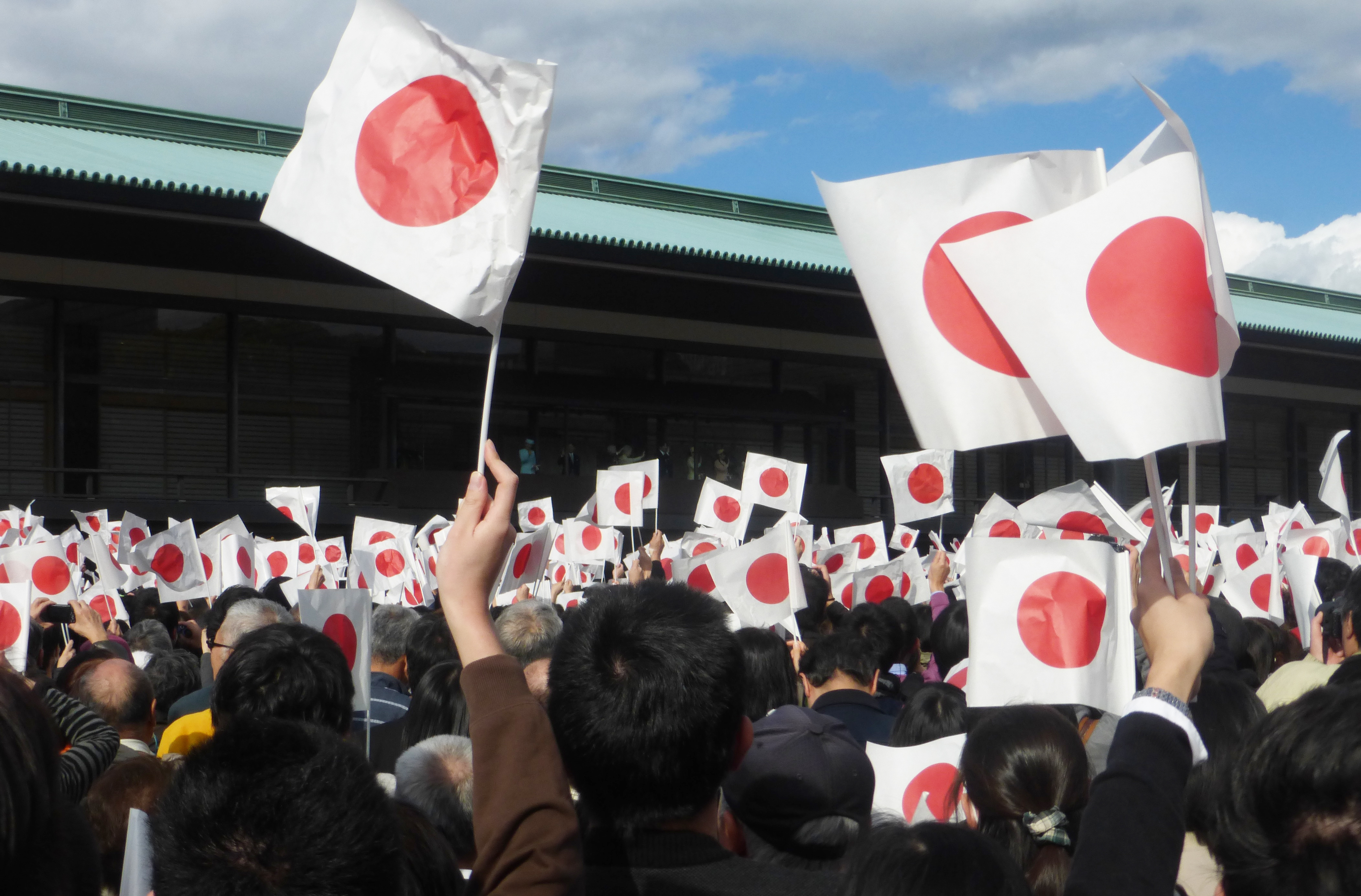 天皇誕生日の一般参賀、小旗 (Small paper flags at the birthday celebration for his Imperial Majesty, the Emperor of Japan)